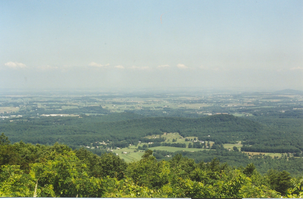 View over Shenandoah Valley from Blue Ridge Parkway Photo by Jan Kronsell, 2000.